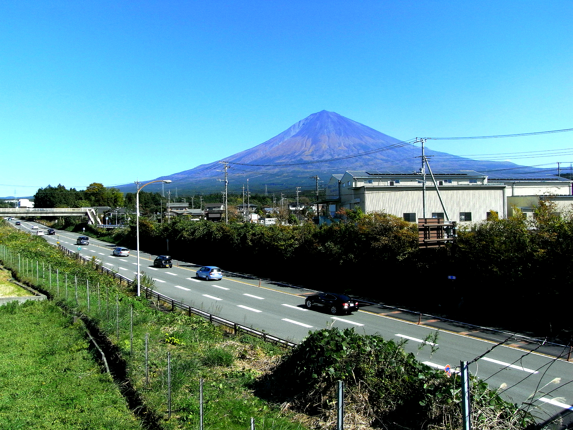 Fujinomiya road in the vicinity of Kitayama Interchange